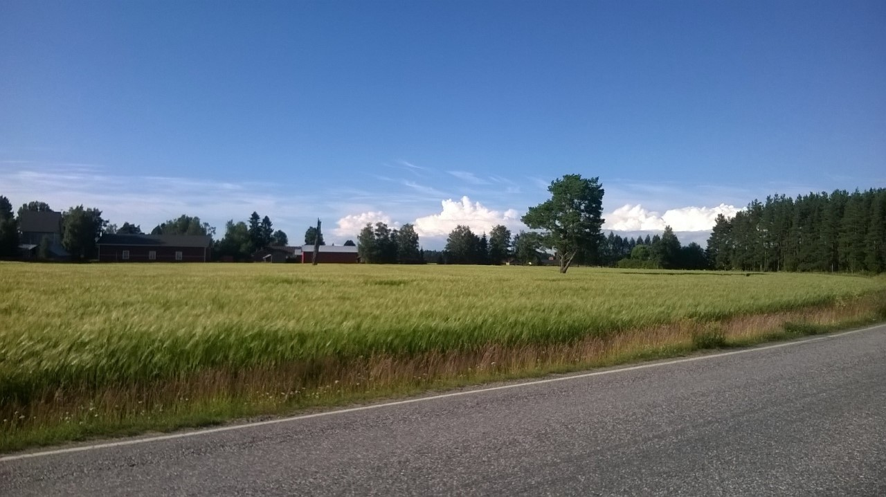 Ojakylä, Tyrnävä, Finland